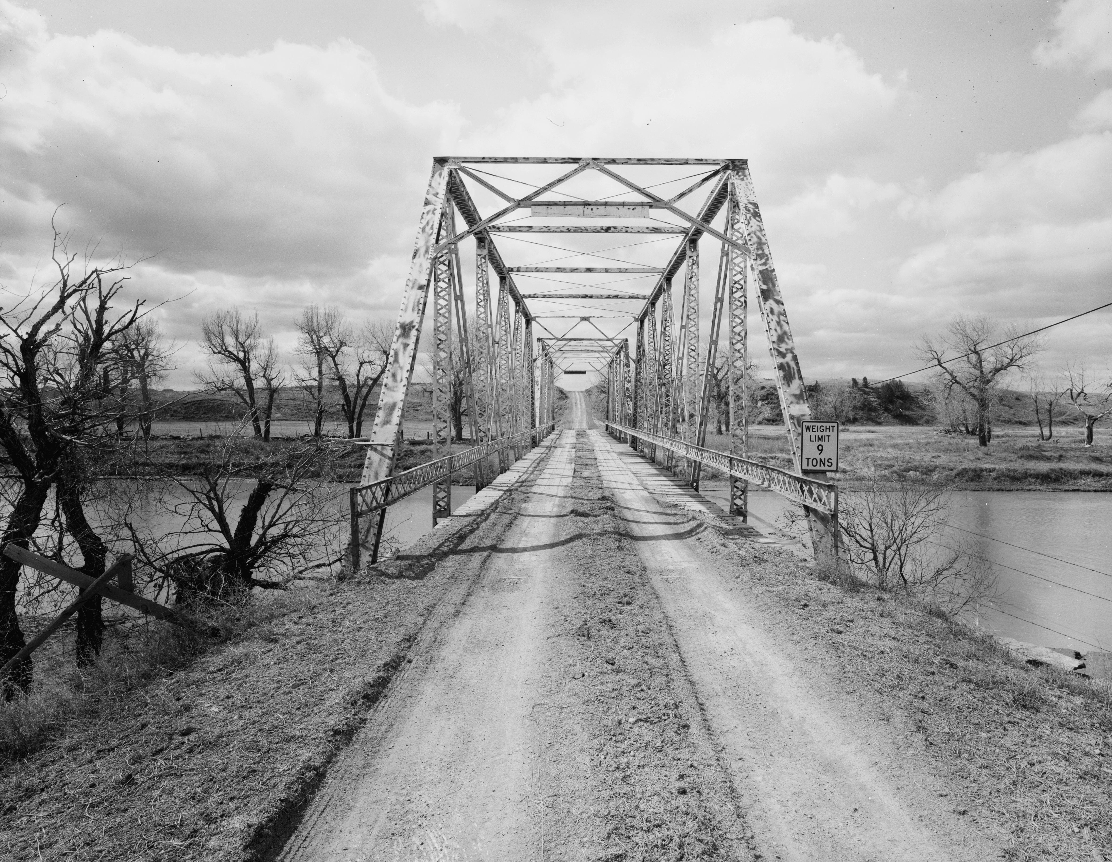 Western end of the EBF Bridge over Powder River, which carries County Road CN3-269 over the Powder River near Leiter in Sheridan County, Wyoming, United States. Built in 1915, this through truss bridge mixes the Pratt and Warren styles, and it is listed on the National Register of Historic Places.